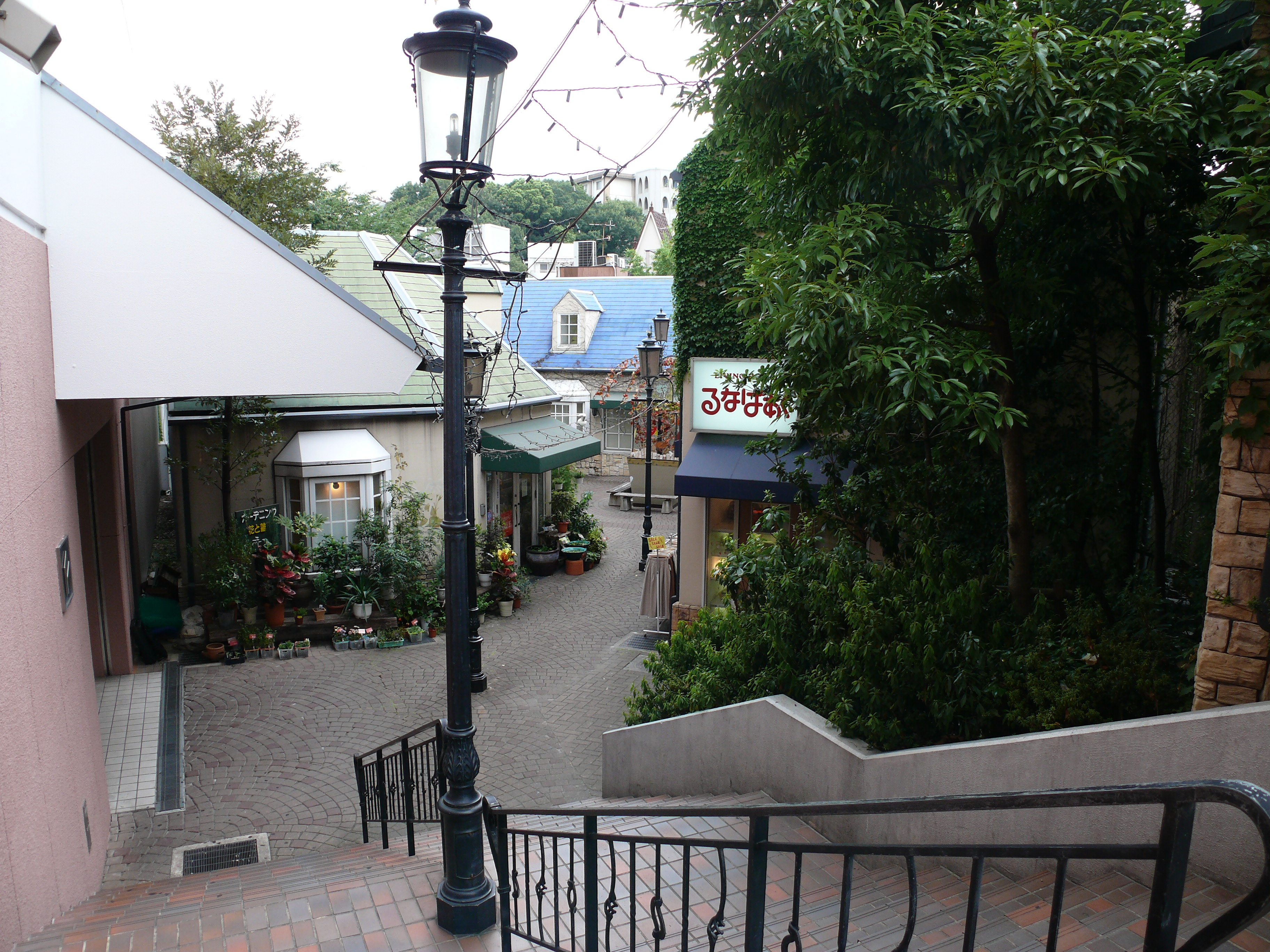 JUSCO City Yagoto.